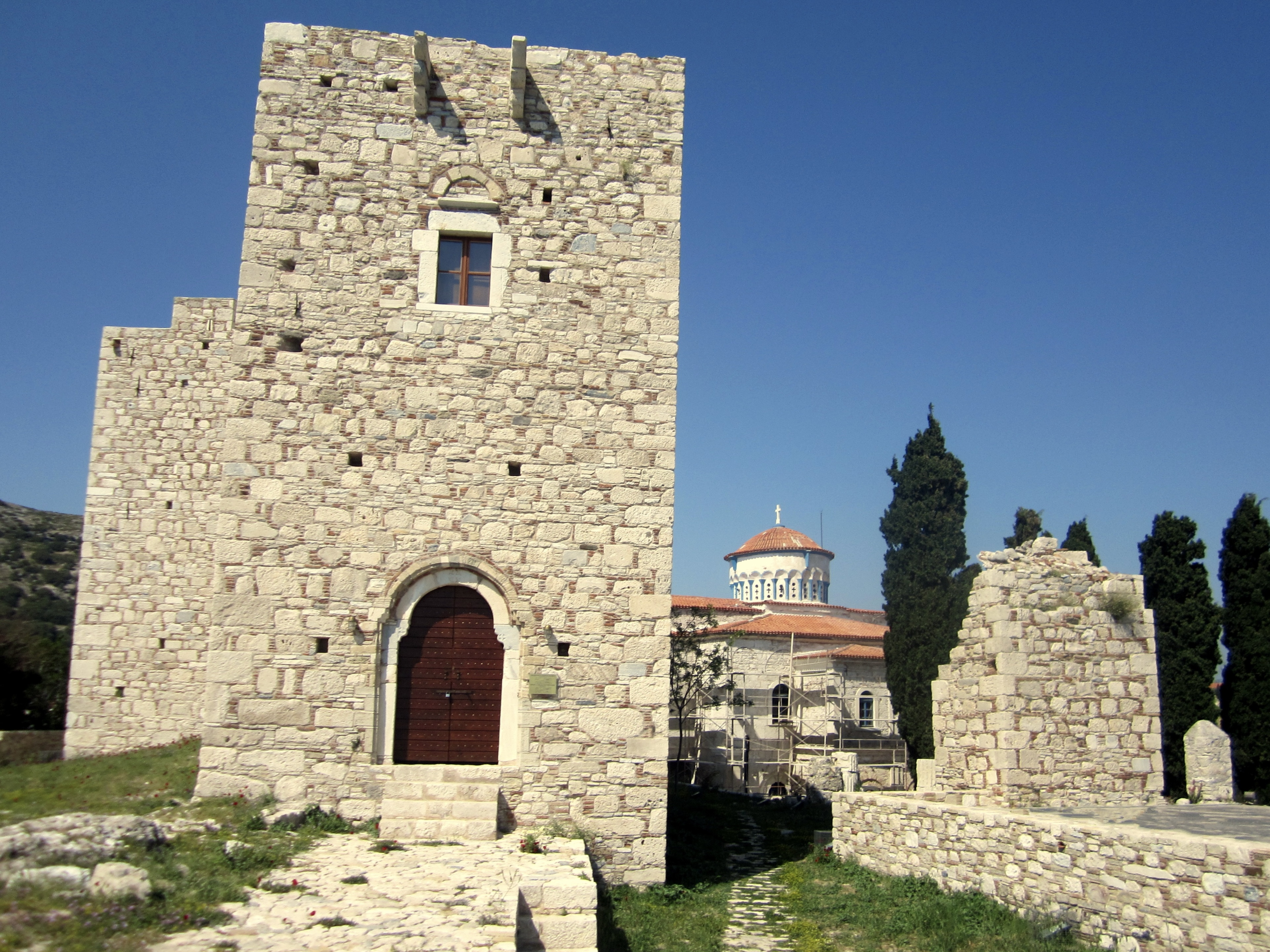 Castle of Lykurgos and church of Transfiguration of Jesus, Pythagorion, Samos, Greece